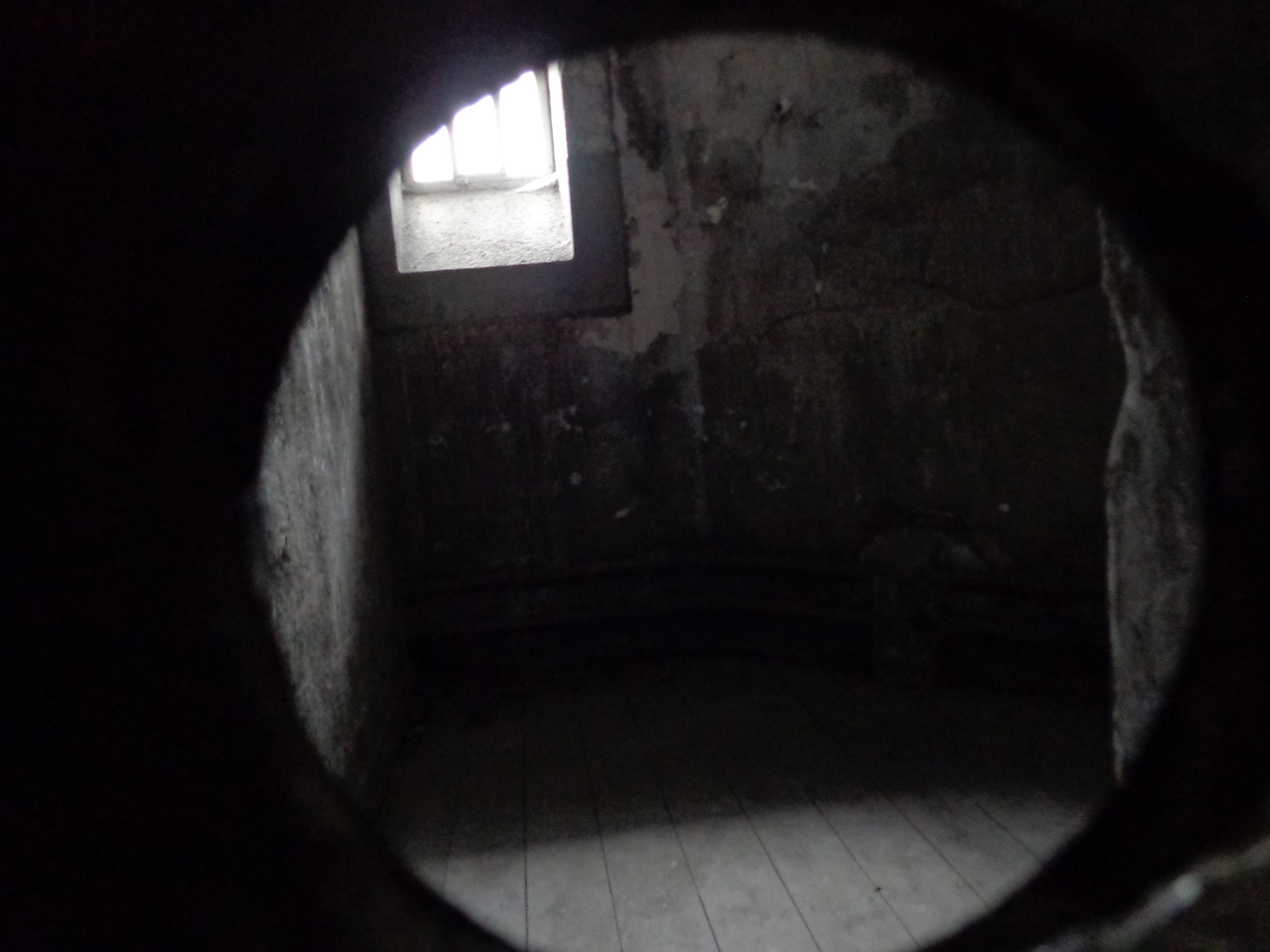 Kilmainham Gaol, Dublin